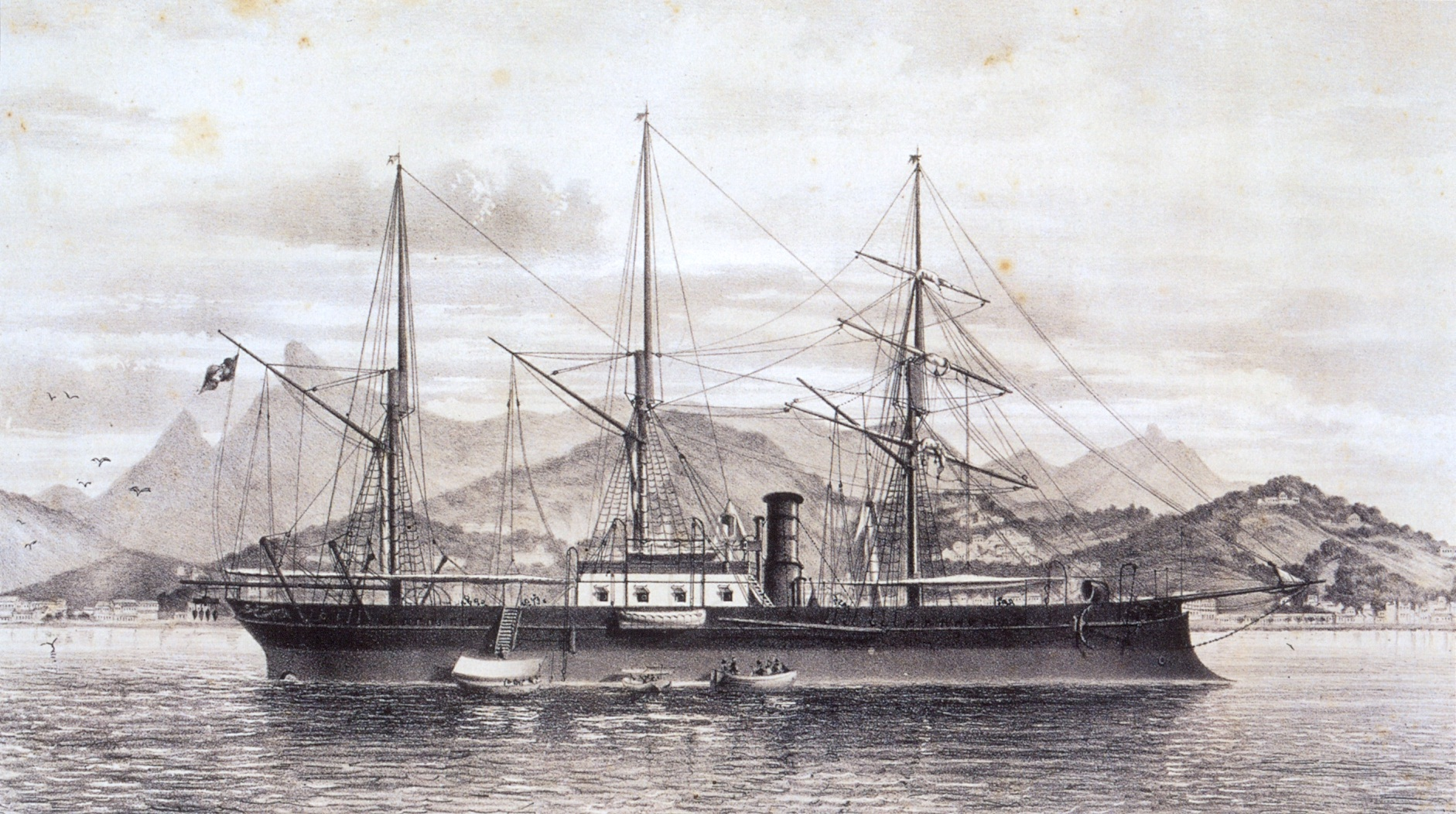 Brazilian ironclad Brasil in Guanabara bay, Rio de Janeiro, Brazil, 1865